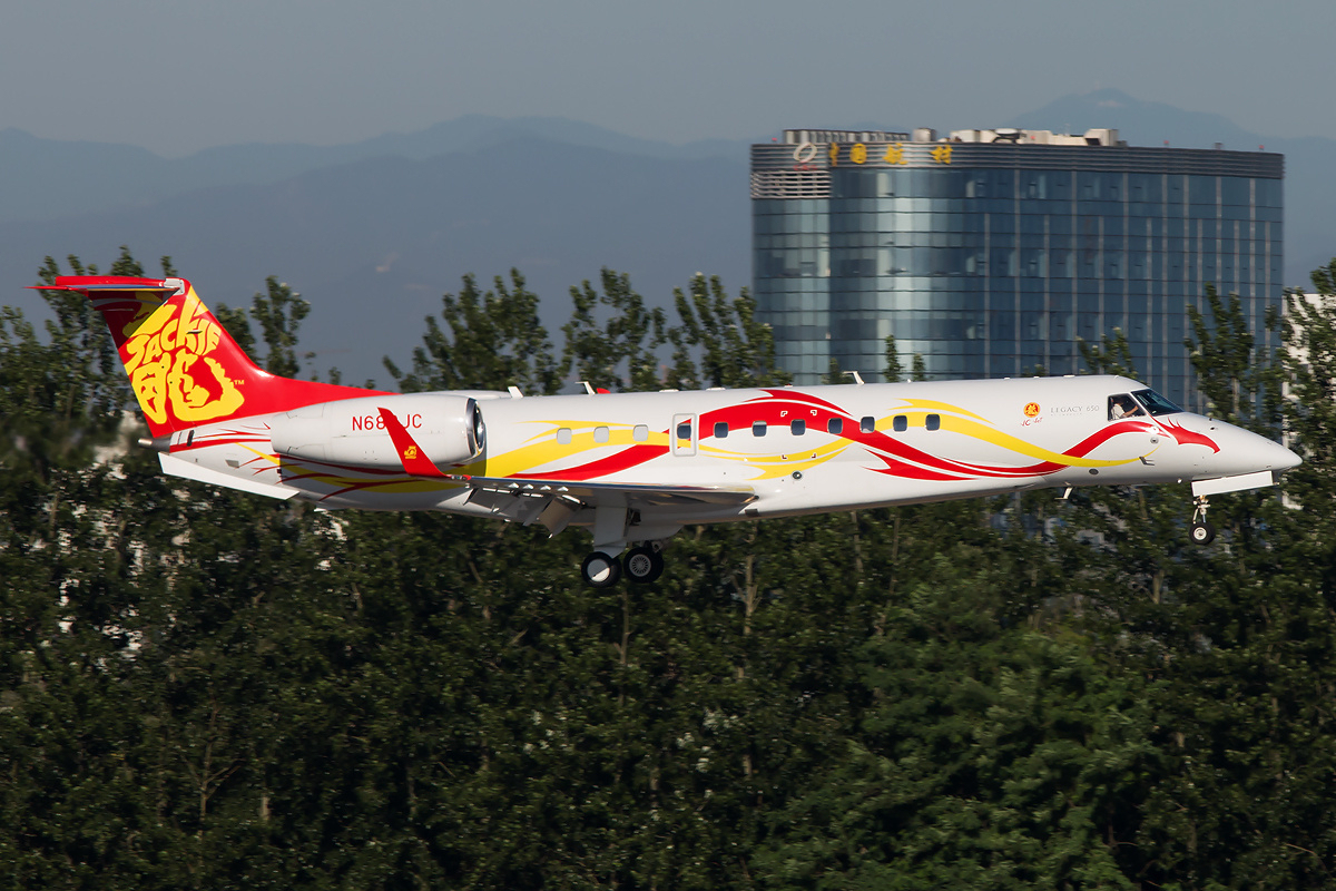 Jackie Chan's Embraer Legacy 650 on finals at Beijing Capital Airport